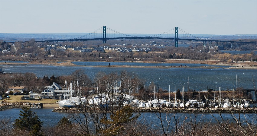 Mount Hope Bridge, between Bristol and Portsmouth, Rhode Island, viewed from Fort Barton tower, Tiverton, March 2008